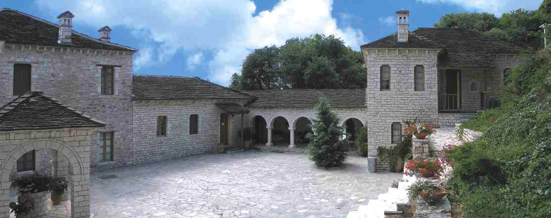 The University of Ioannina cultural center, in the restored old Monastery of Aghios Georgios of Dourouti.